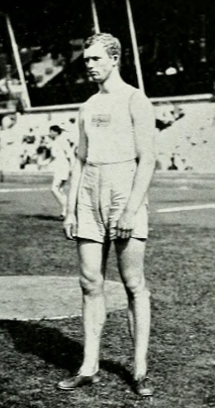 Georg Åberg during the triple jump competition at the 1912 Summer Olympics